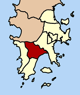 Map of Amphoe Mueang Phuket highlighting the tambon Chalong